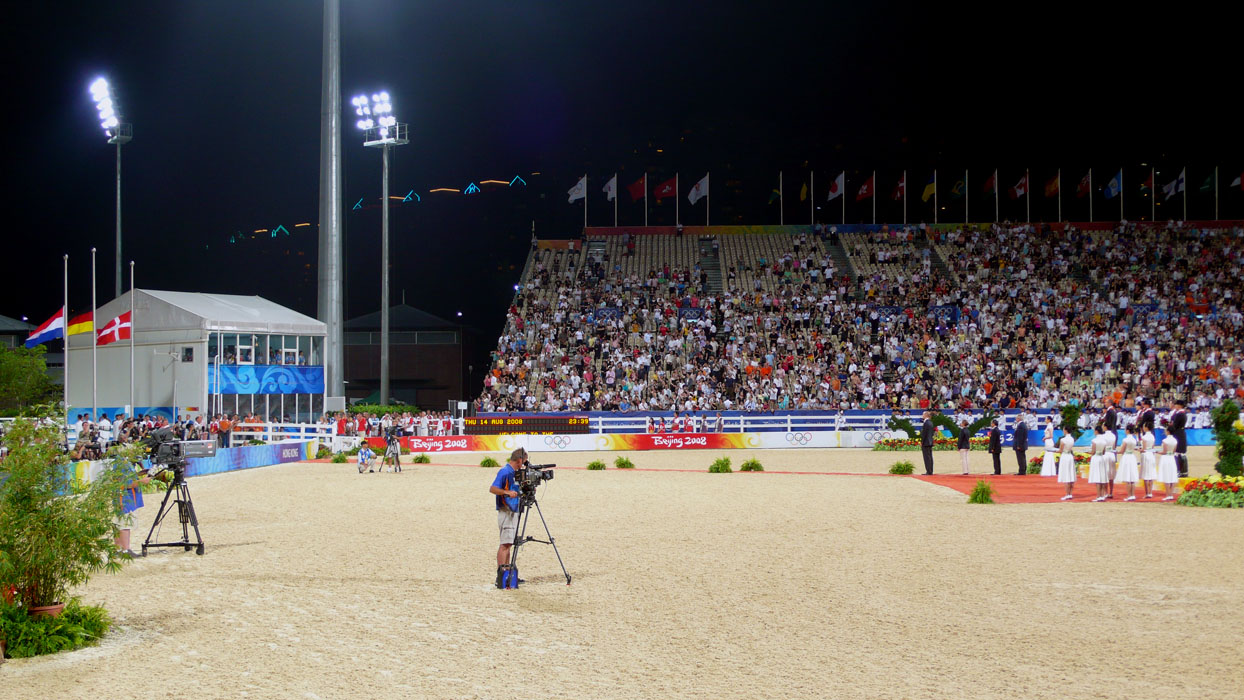 Beijing 2008 Olympic Game - Equestrian Event - Victory Ceremony of Dressge Team Grand Prix.